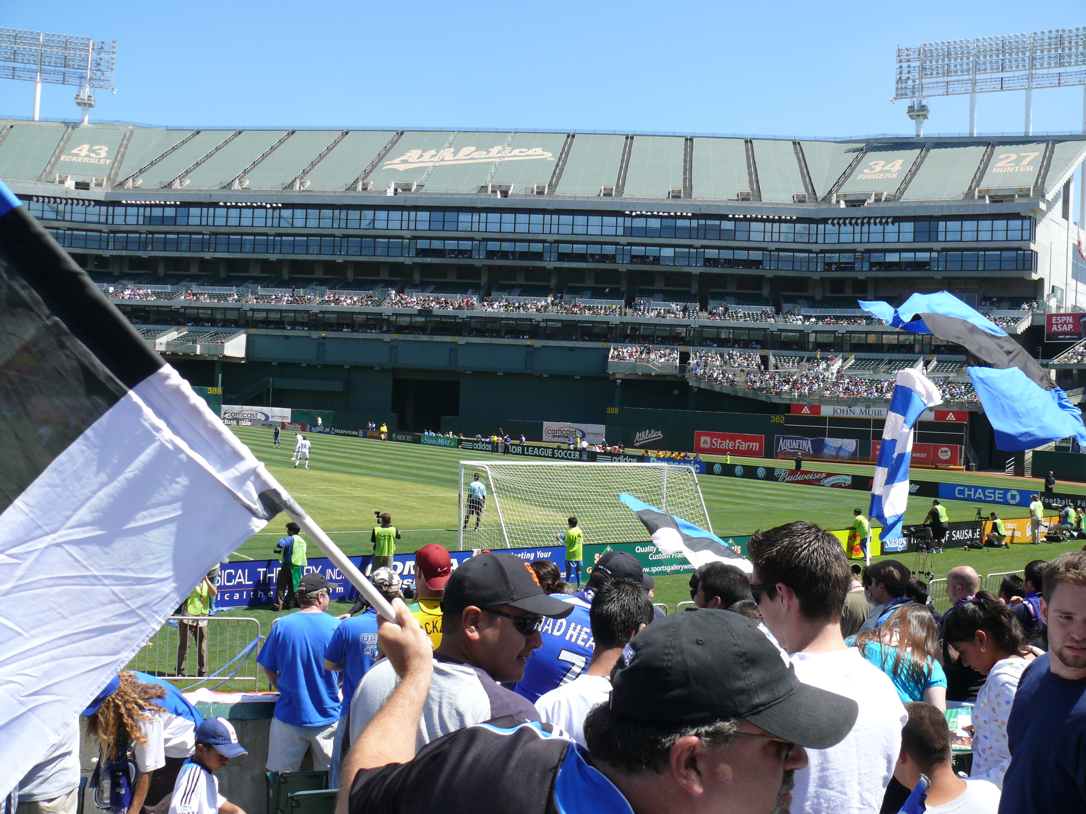 The San Jose Earthquakes take on the hated Los Angeles Galaxy at McAfee Coliseum, Oakland CA, on August 3, 2008.